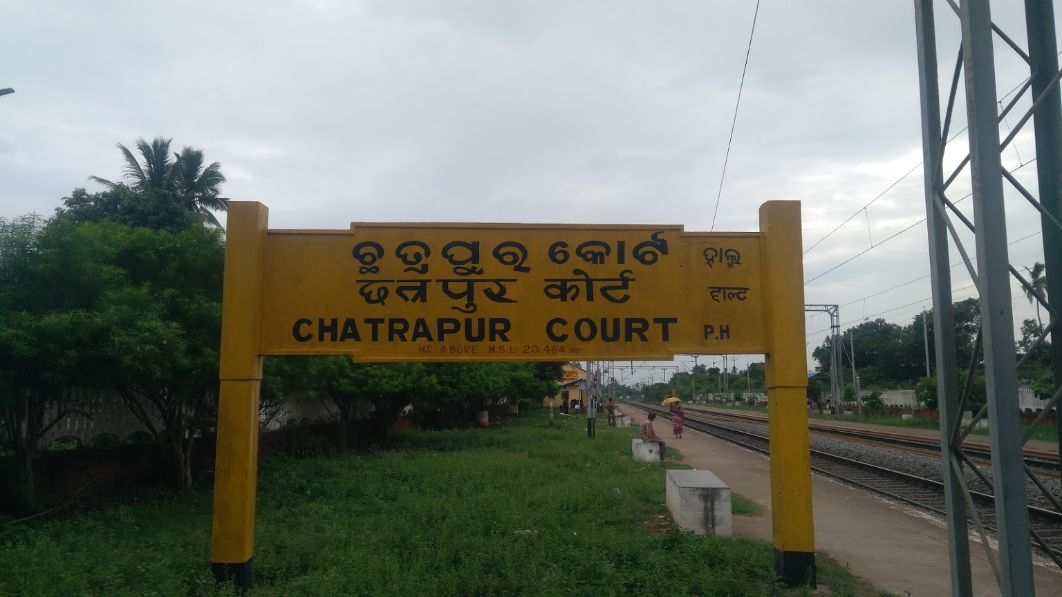 This is the Picture of chhatrapur cort railway station